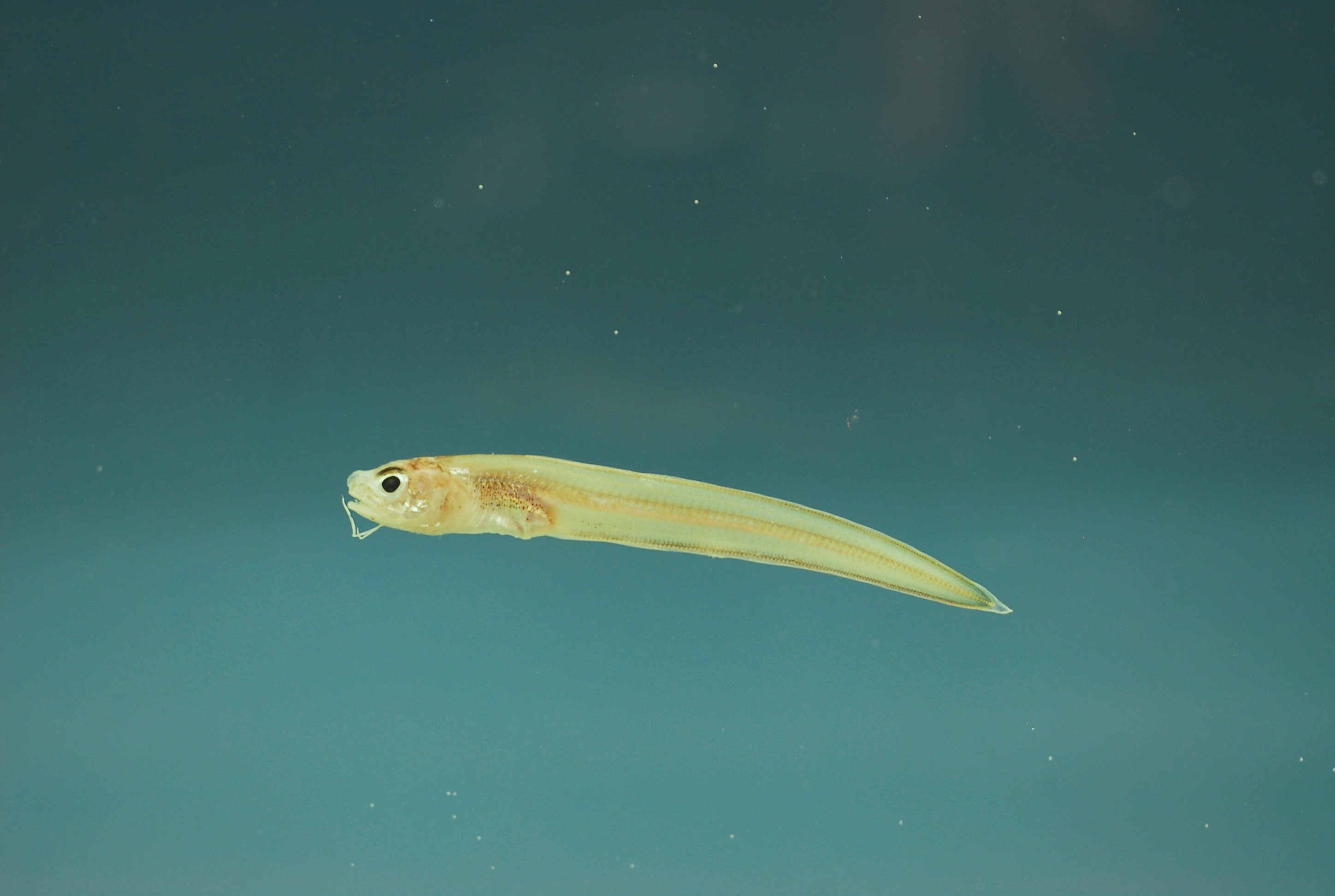 Juvenile blackedge cusk-eel or shortbeard cusk-eel ( Lepophidium brevibarbe ). Gulf of Mexico.